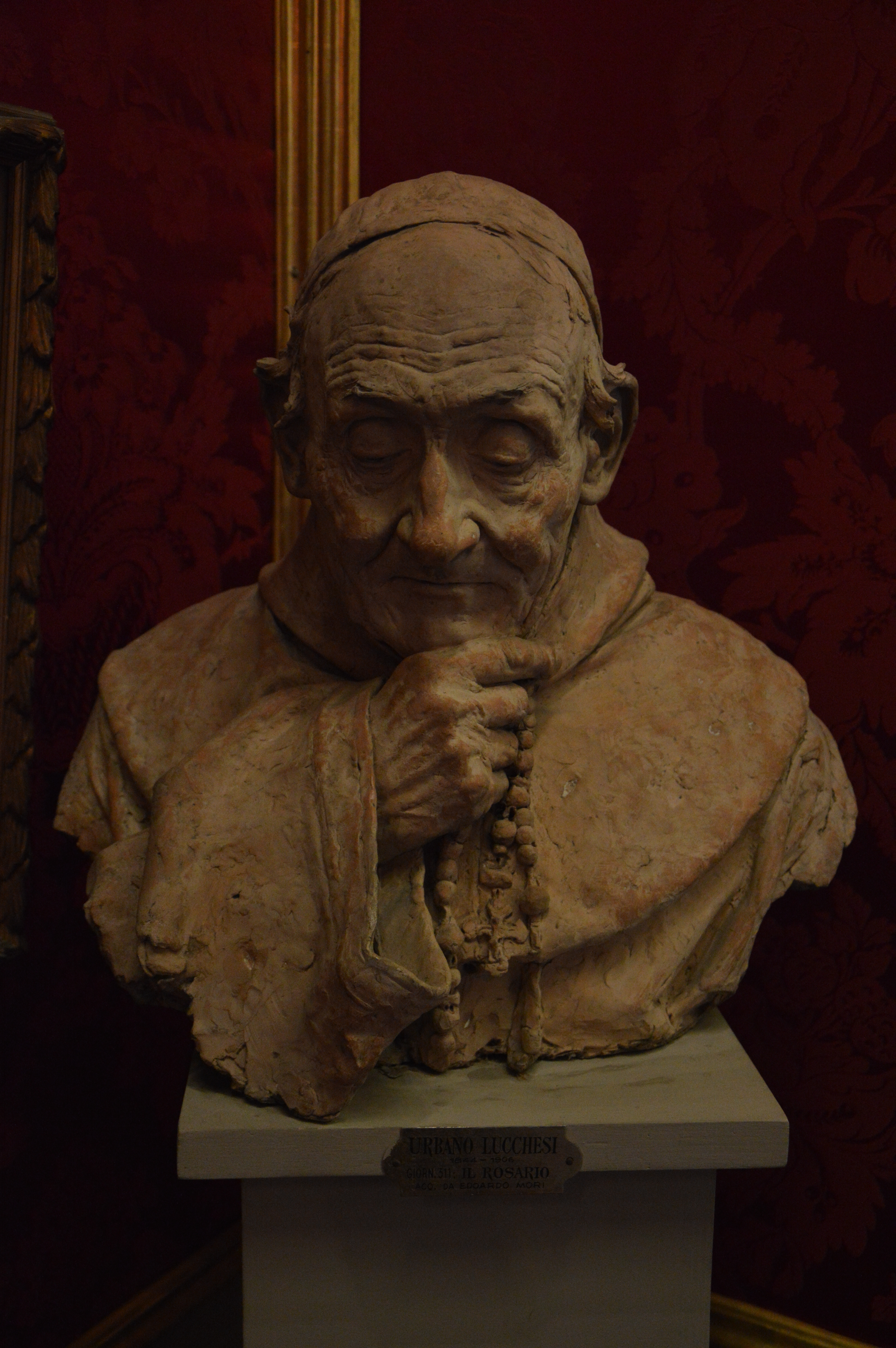 Urbano Lucchesi's sculpture, "Il Rosario" at the Galleria d'Arte Moderna in Florence, Italy.